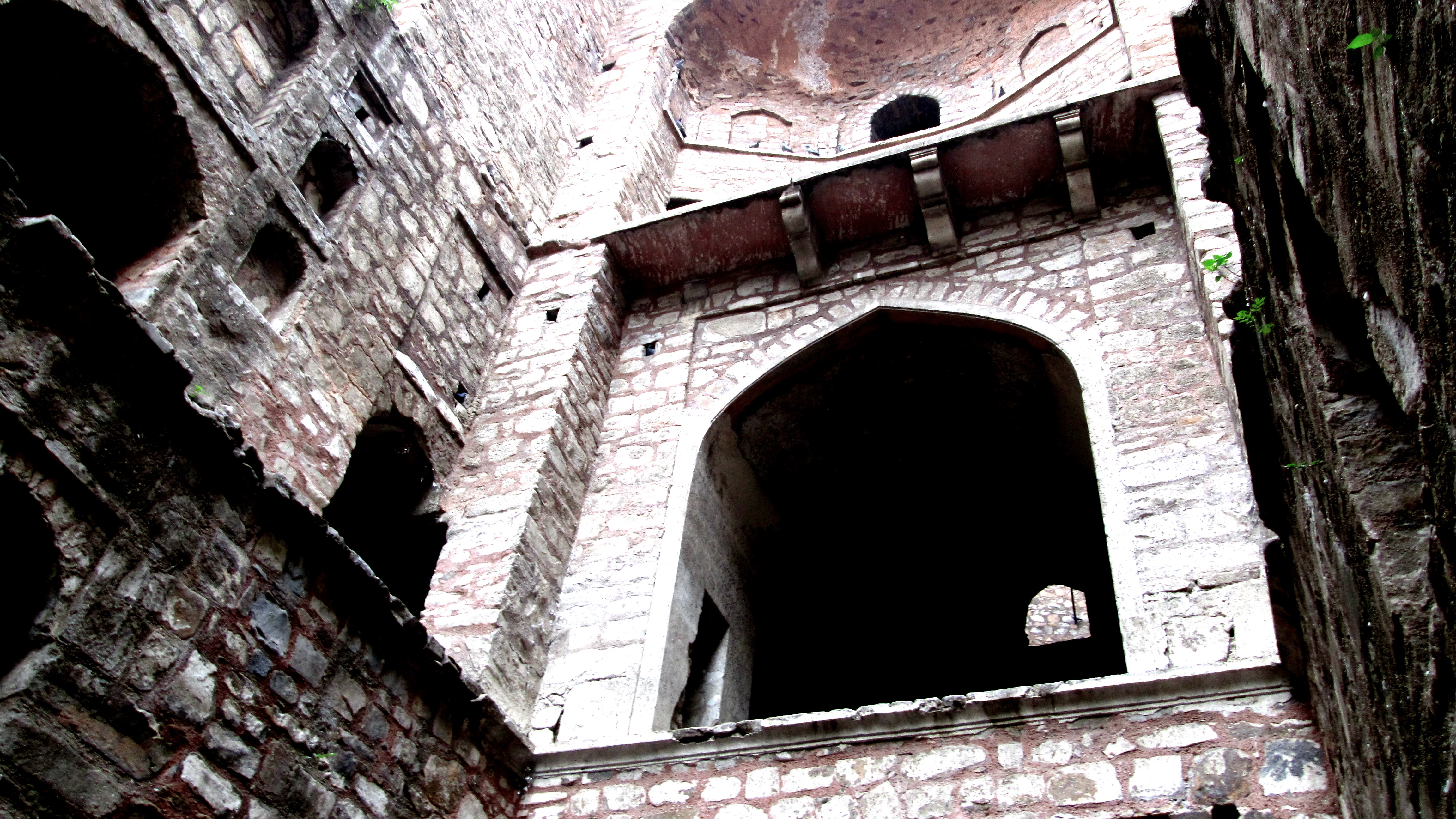 Agrasen Ki Baoli is located on a unexpected area near Mandi house, New Delhi. Very few people know about the place and its location.